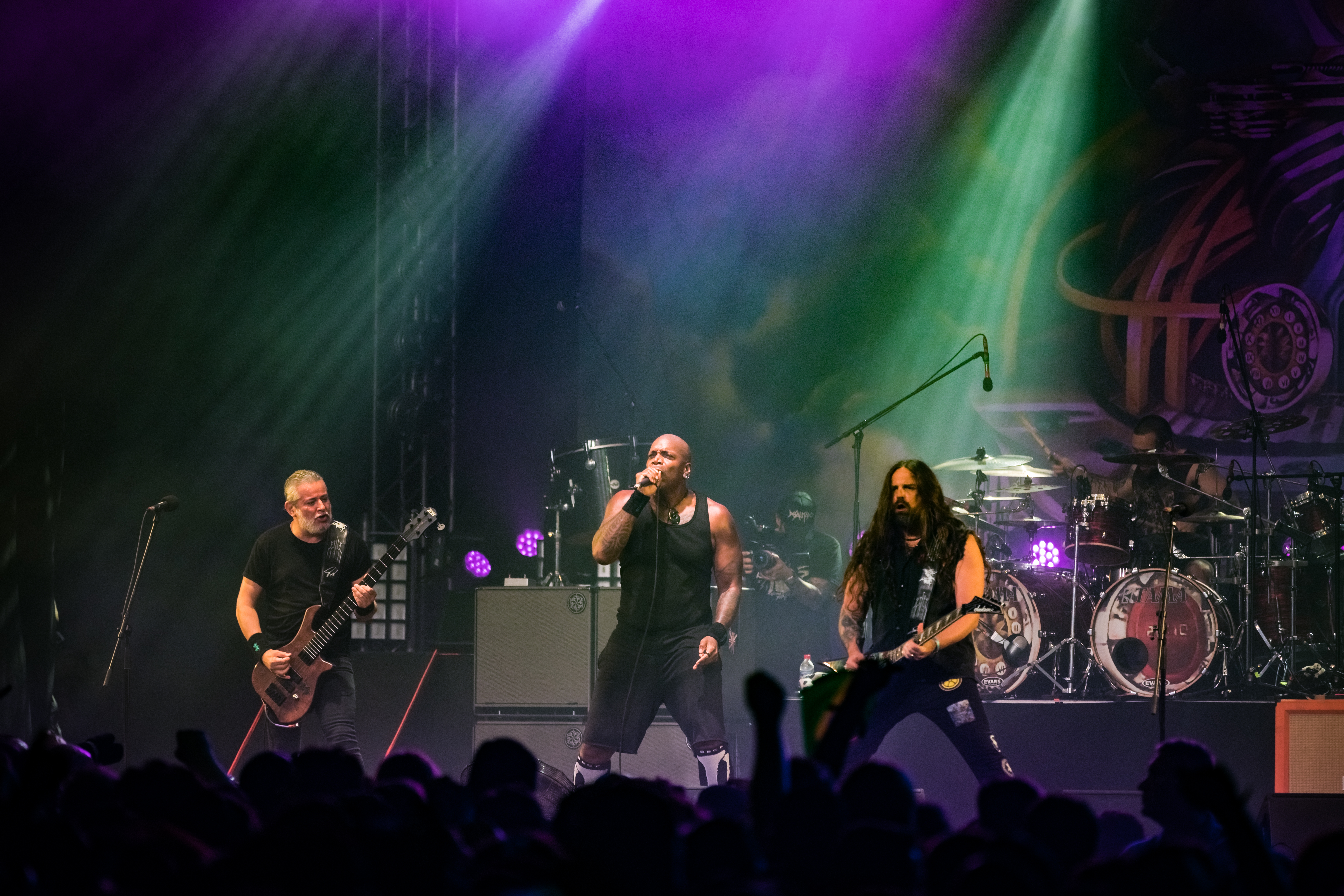 Sepultura - Wacken Open Air 2018